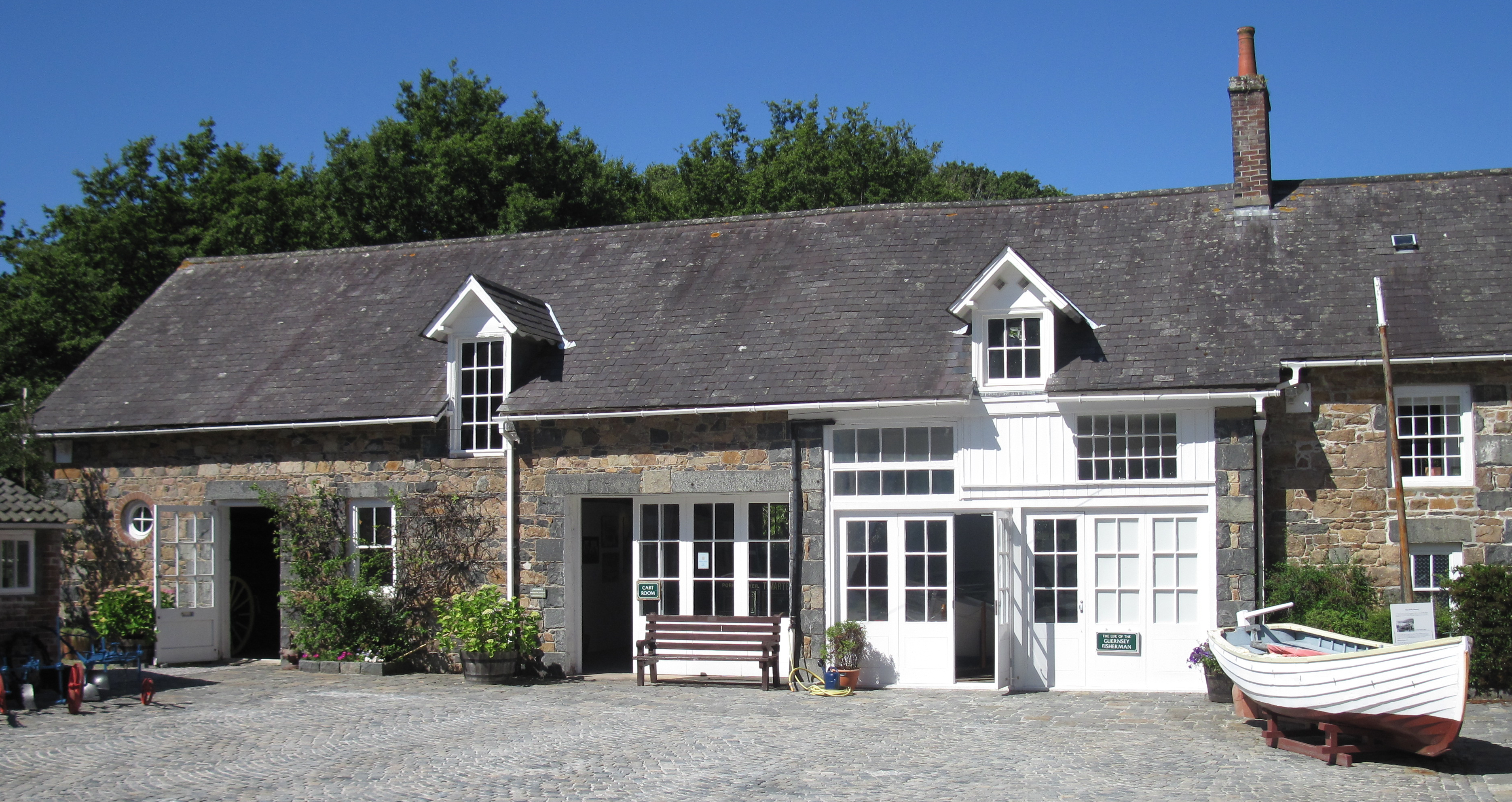 In Guernsey, 4 July 2010, Saumarez Park, National Guernsey Trust Folk & Costume Museum